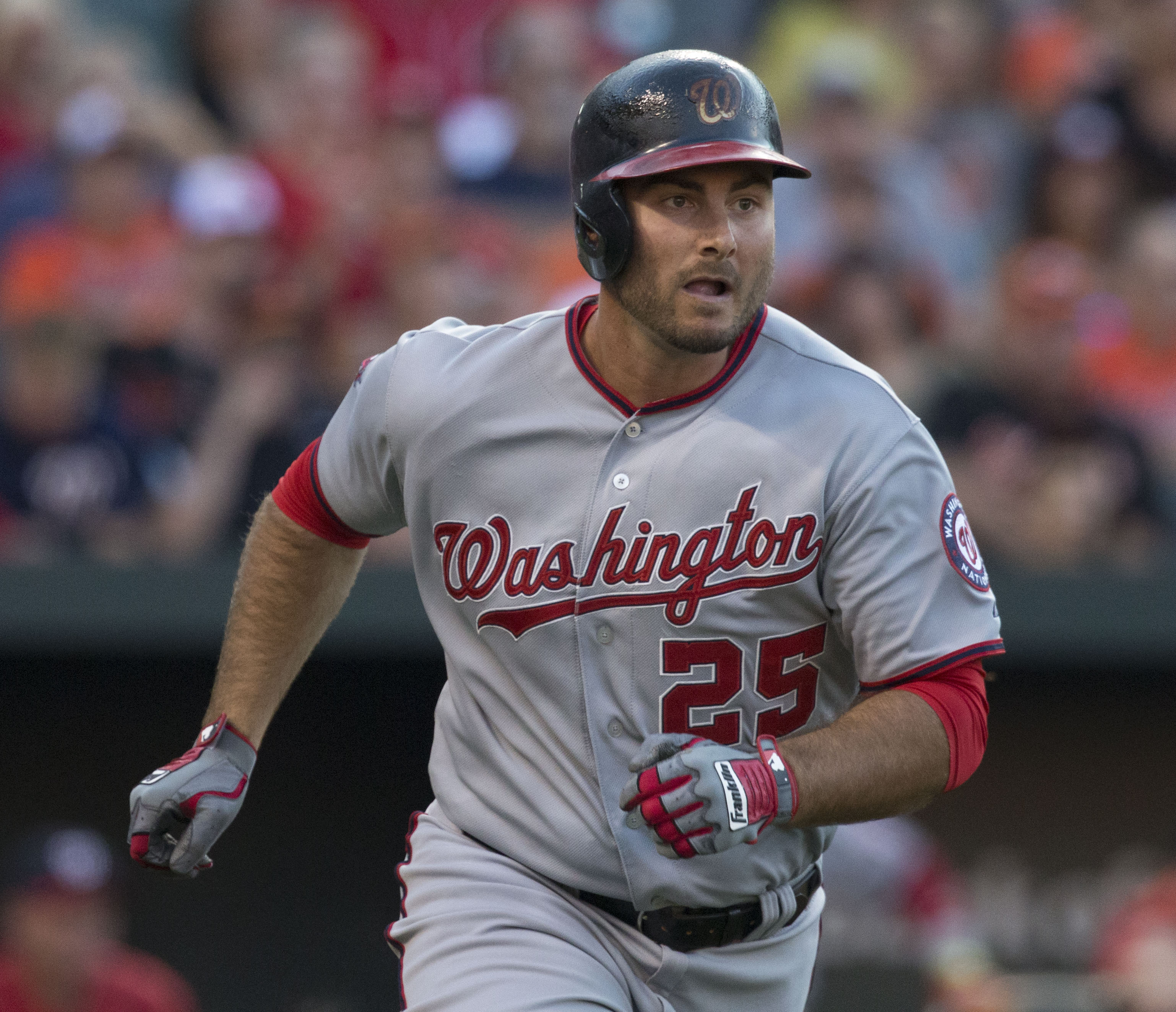 Nationals at Orioles 7/11/15